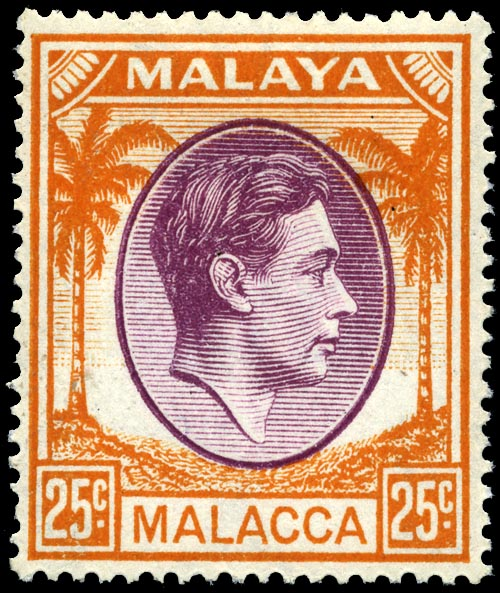 Malacca 25c stamp of 1949